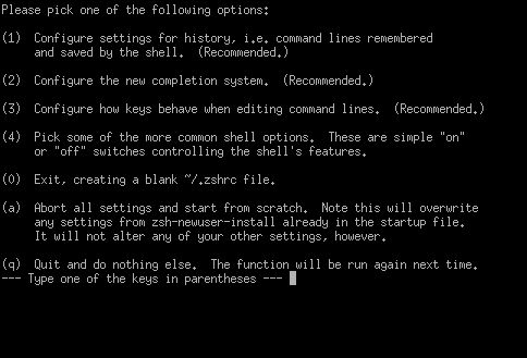 The Z Shell new user configuration utility, main menu.